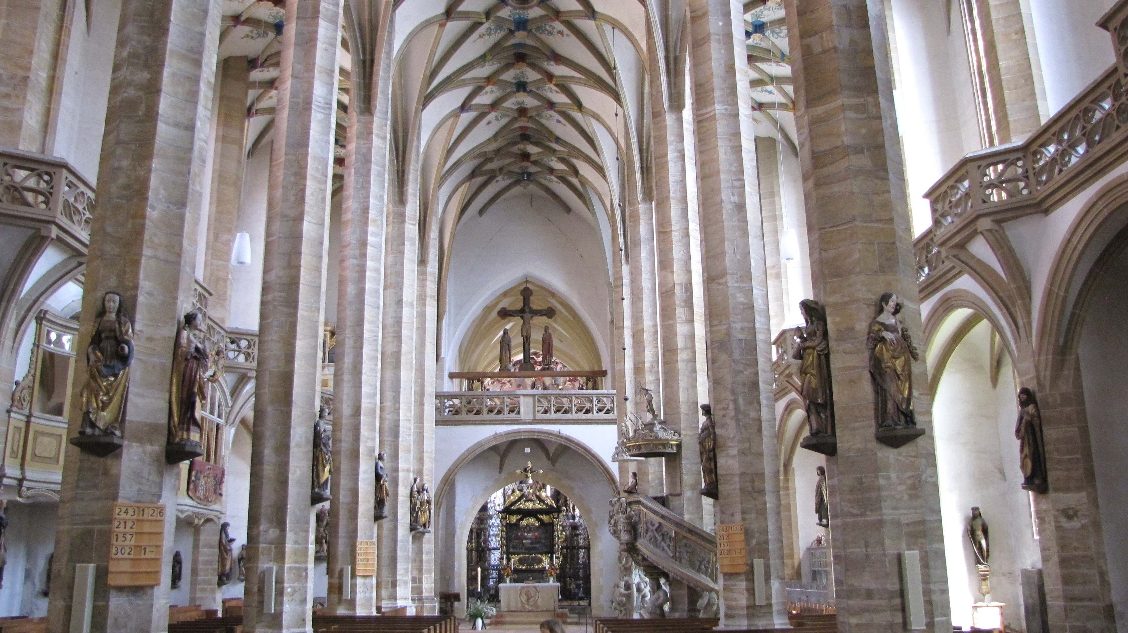 Interior of Dom in Freiberg